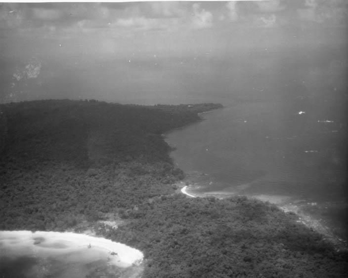 Aerial surveillance showing both East and West Beaches on Koh Tang